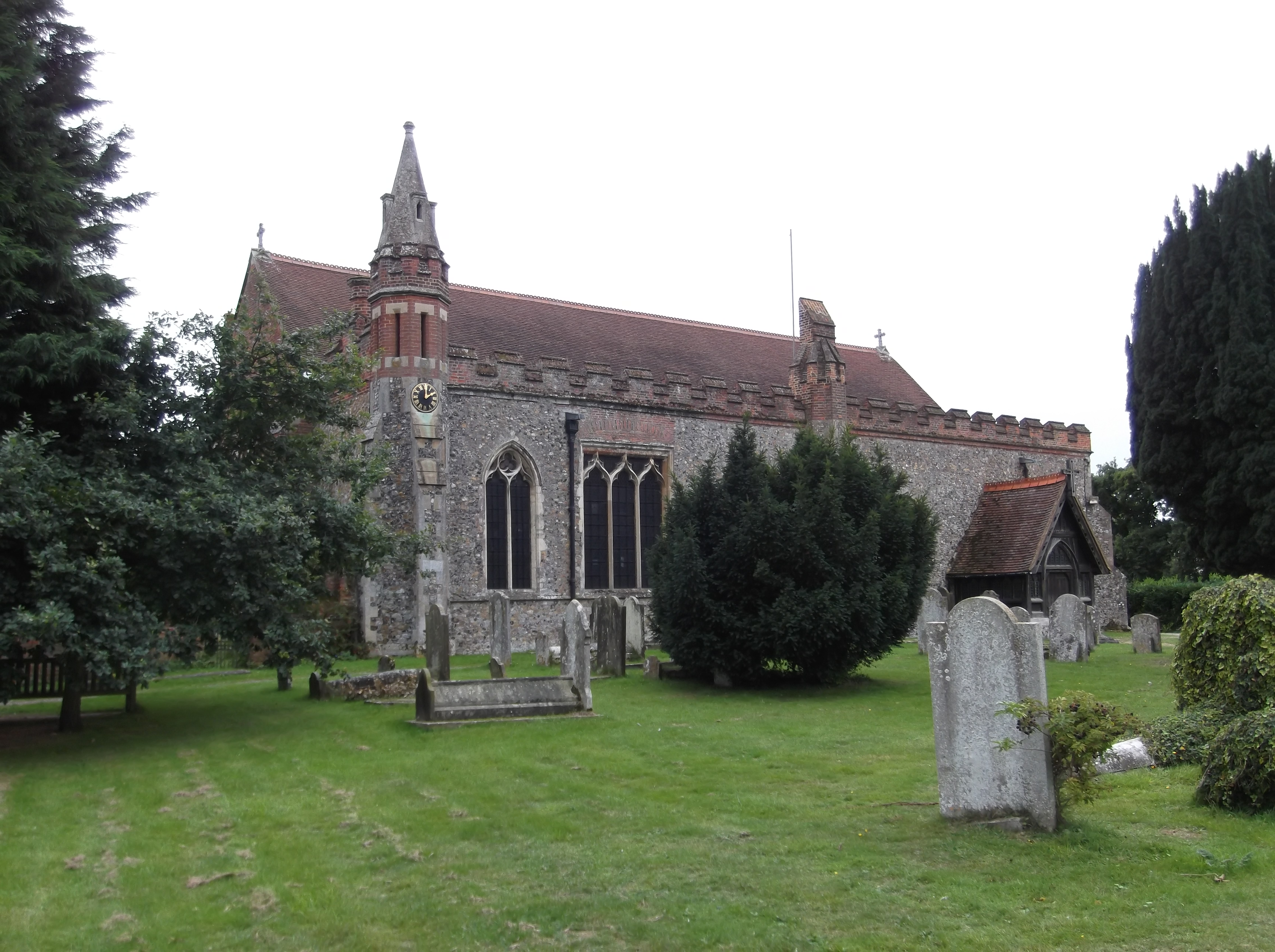 Photograph of St Andrew's Church, Hatfield Peveral, Essex - former priory church